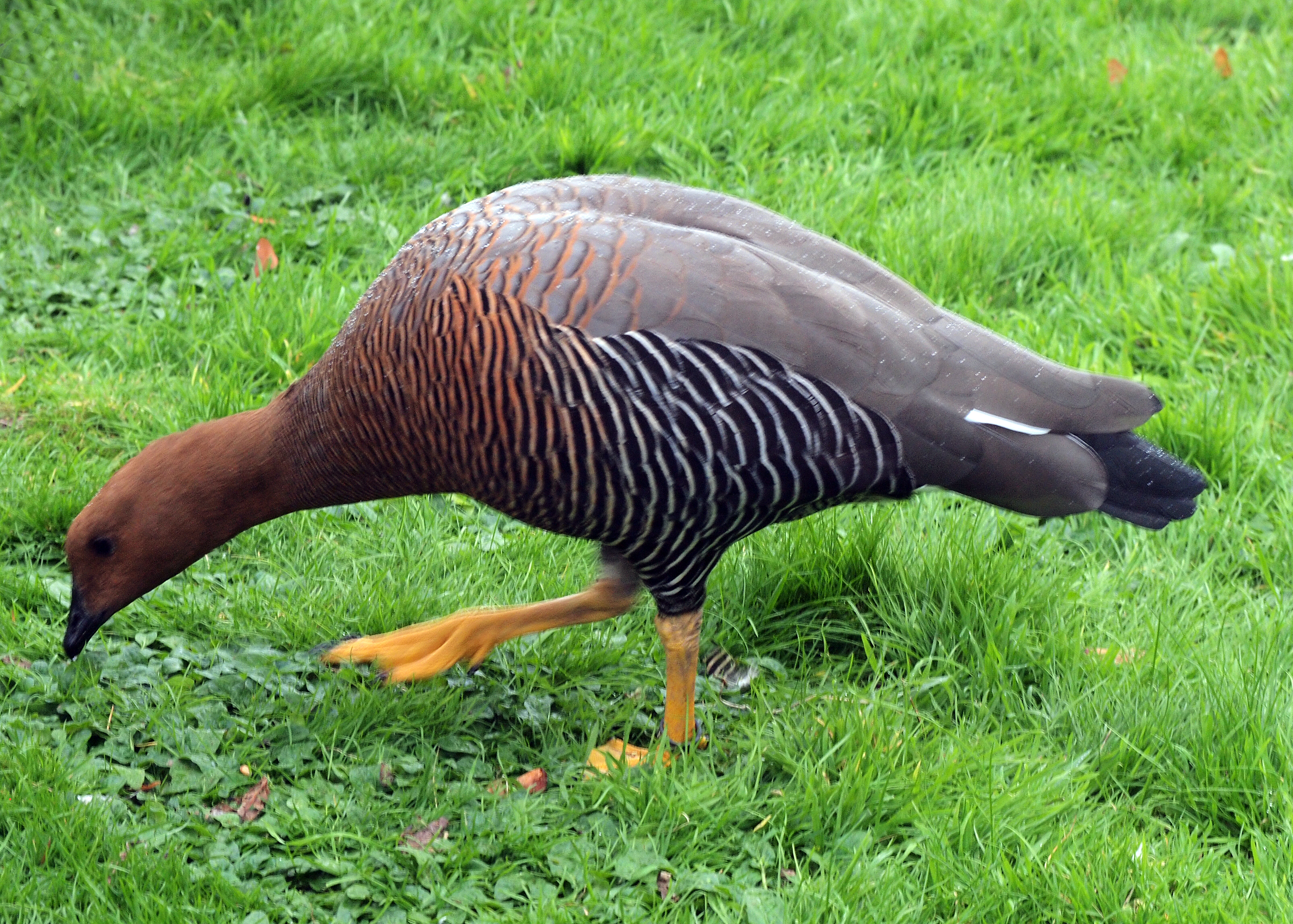 A female Upland Goose at WWT Slimbridge, Gloucestershire, England.